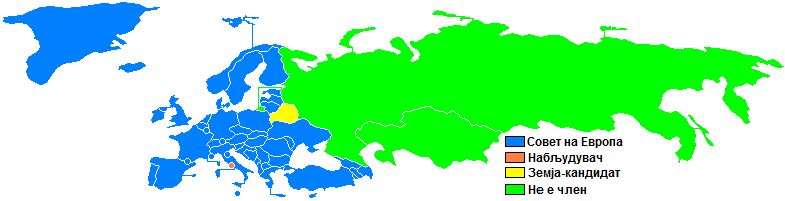 Council of Europe members